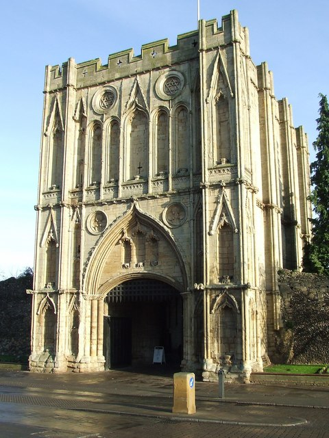 Abbey gate The Abbey gate Angel Hill Bury St.Edmunds Suffolk.